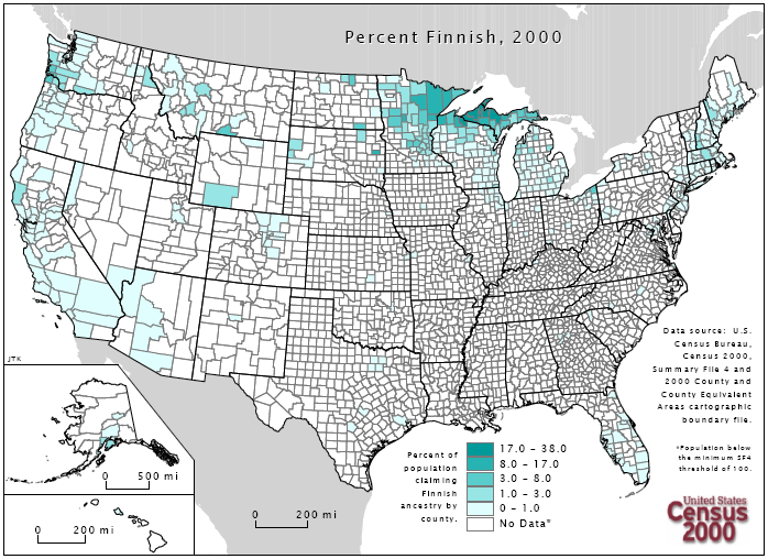 Diagram indicating Finnish American settlement in the United States. Image as based on the census 2000 by the U.S. Census Bureau. Badagnani (talk) 07:01, 23 May 2009 (UTC)